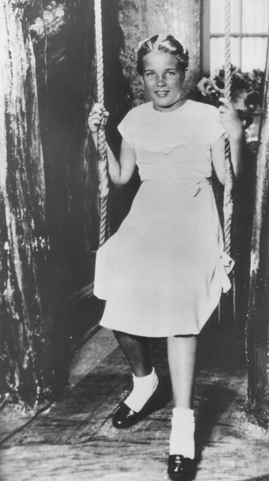 Undated family photograph of Florence Sally Horner.